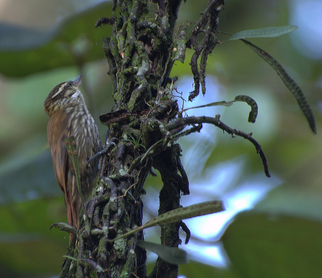 Streaked Xenops, Xenops rutilans